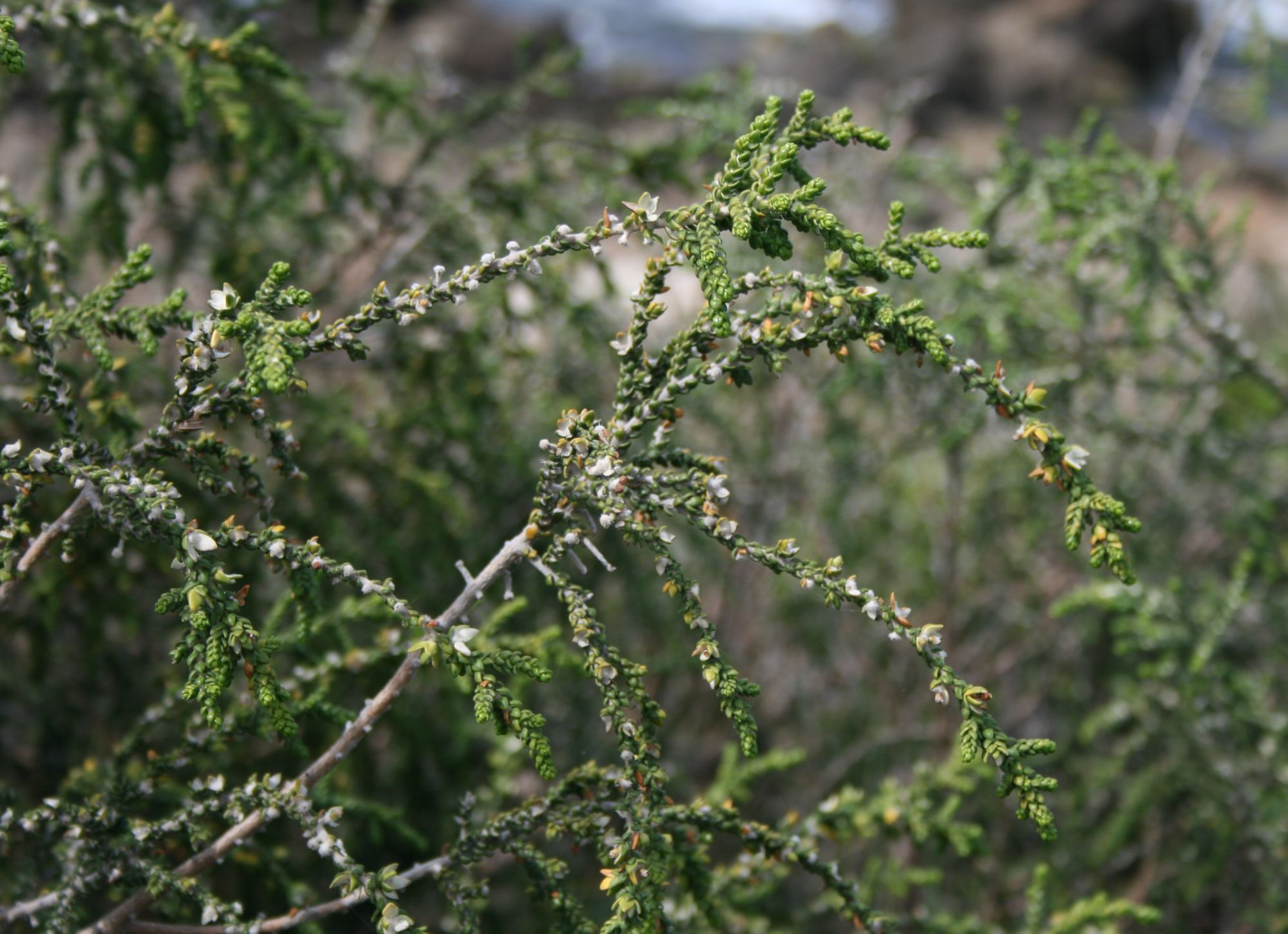 Thymelaea hirsuta, Spatzenzungengewächse (Thymelaeaceae) - Italien/Italia/Italy: Kalabrien/Calabria, Prov. Crotone, Capo Rizzuto S Crotone